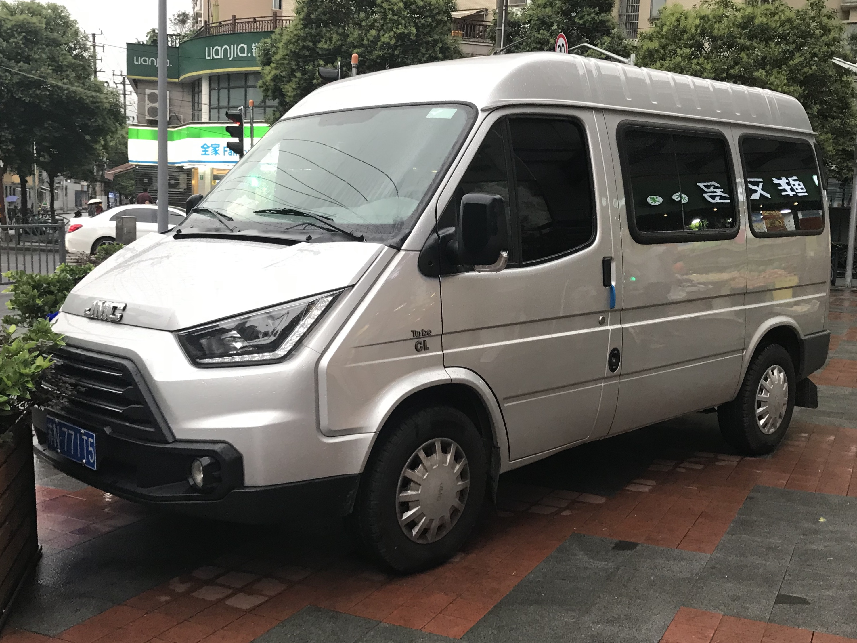 JMC Teshun